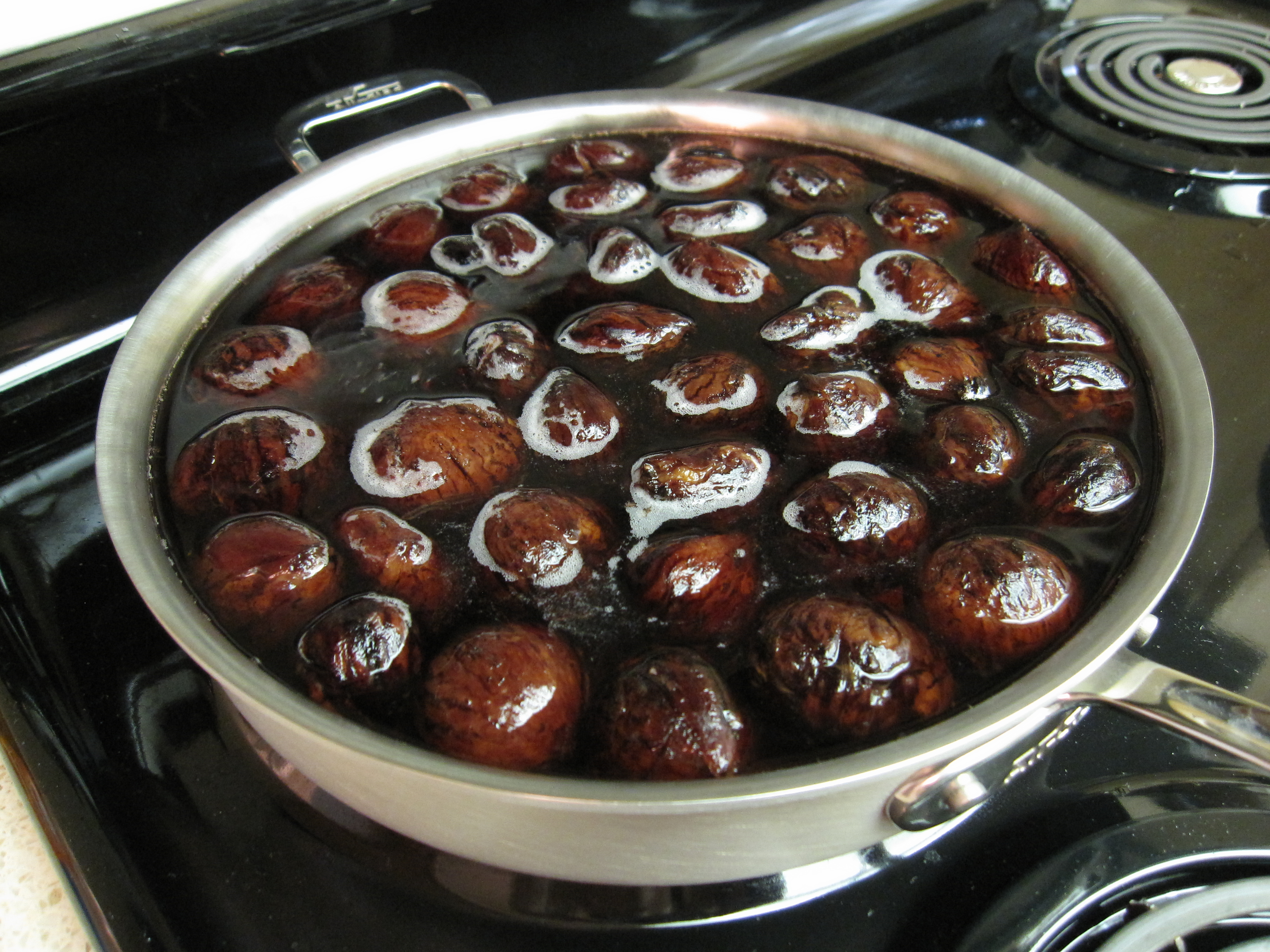 Preparation of chestnut compote on a stove.